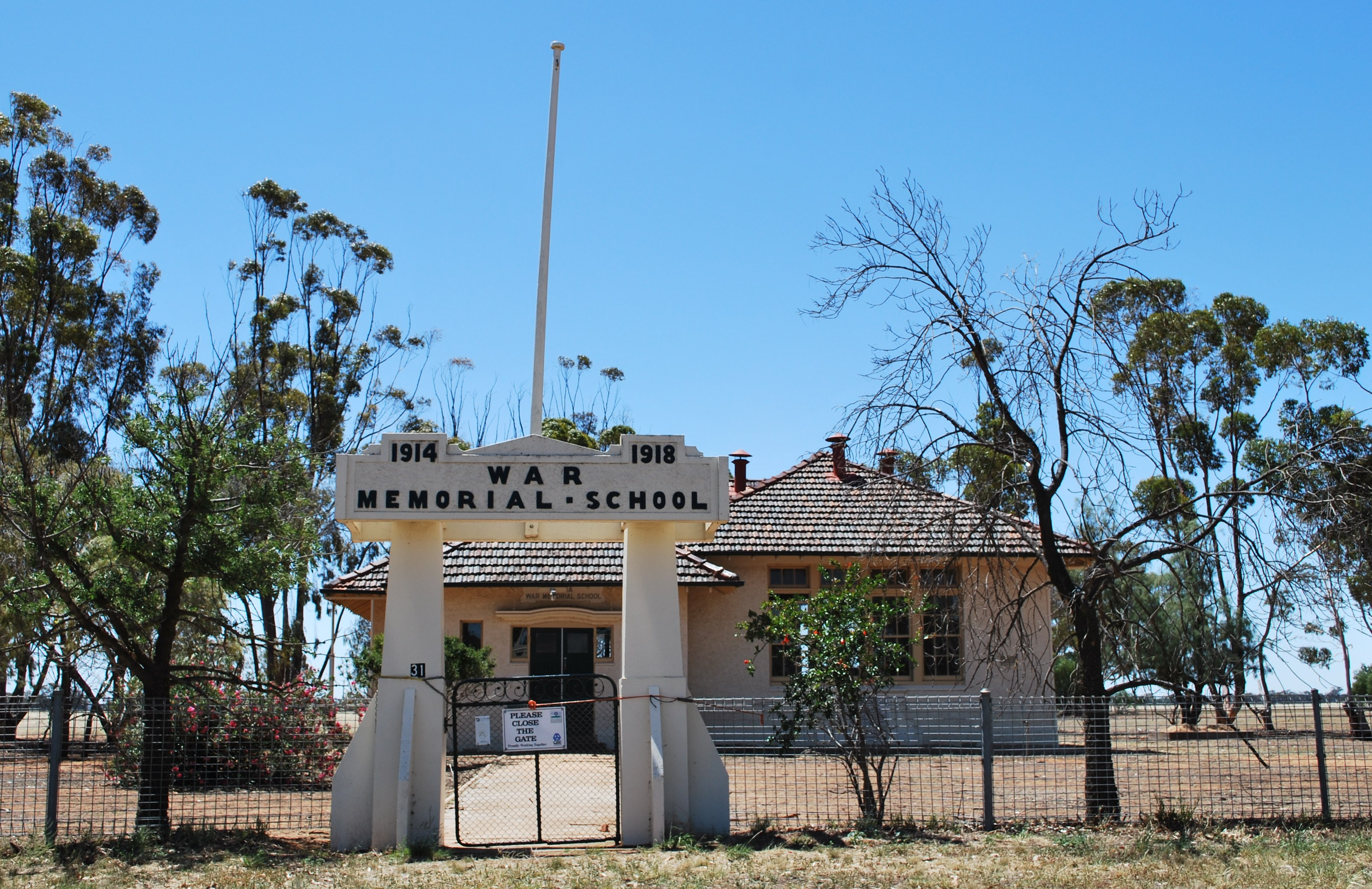 Former War memorial school at Mysia, Victoria, now a public hall